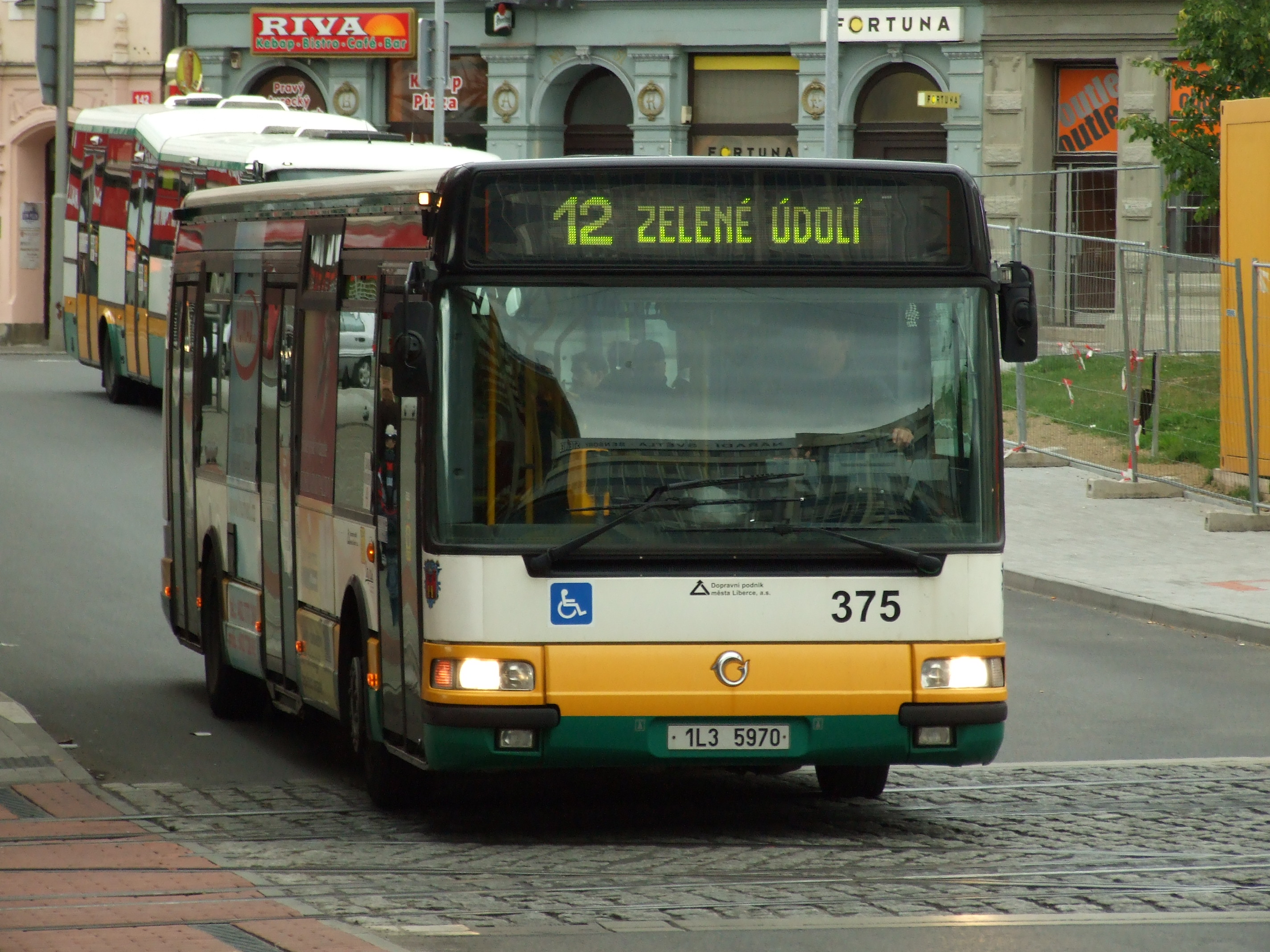 Buses in Liberec, city buses and intercity coaches, CZhelp